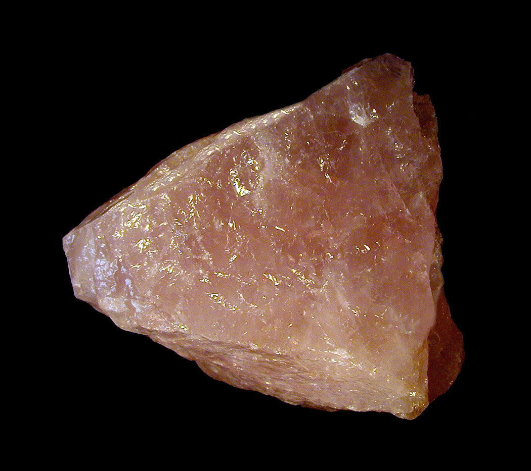 Self-made photograph of a piece of rose quartz